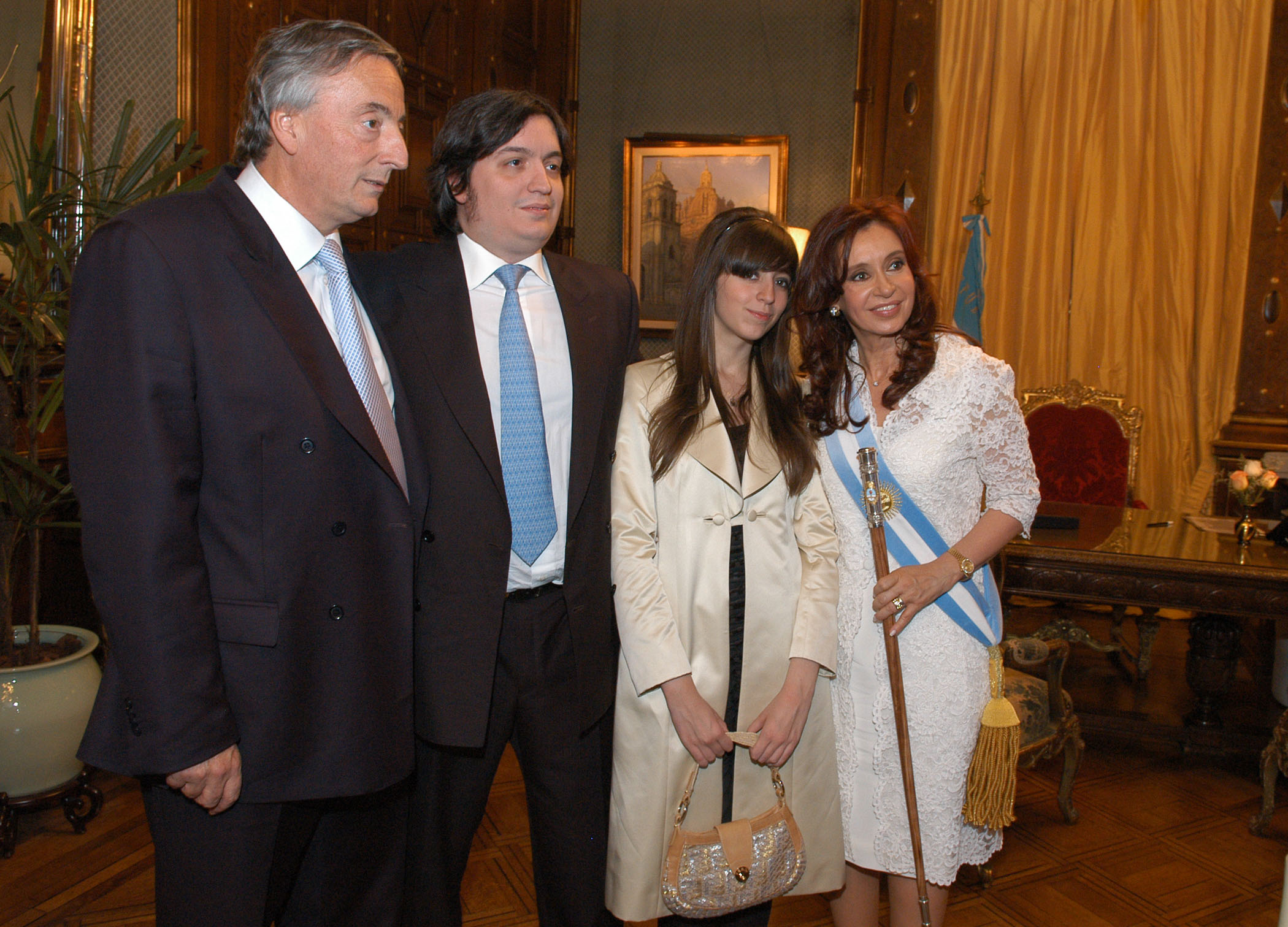 Kirchner family at inauguration of Cristina Fernández de Kirchner.